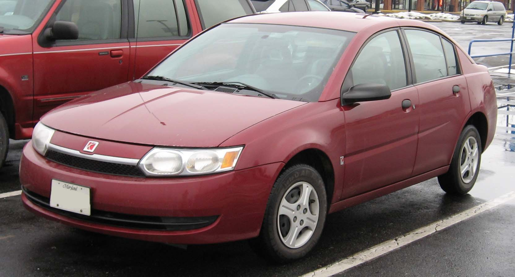 2003-2004 Saturn Ion photographed in USA.